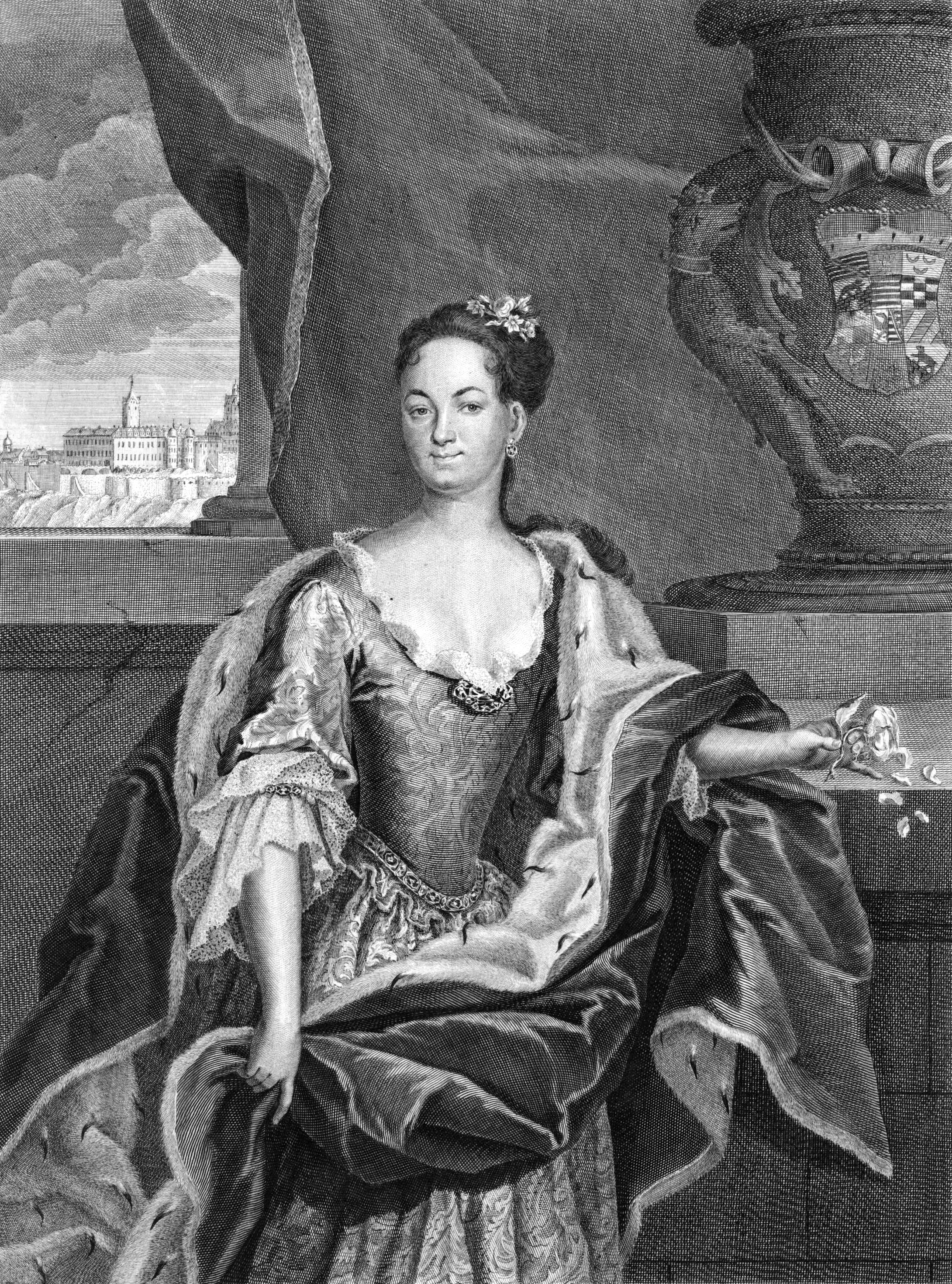 Portrait of Fredericka Henriette Anhalt-Bernburg (1702-1723), wife of Leopold, Prince of Anhalt-Köthen